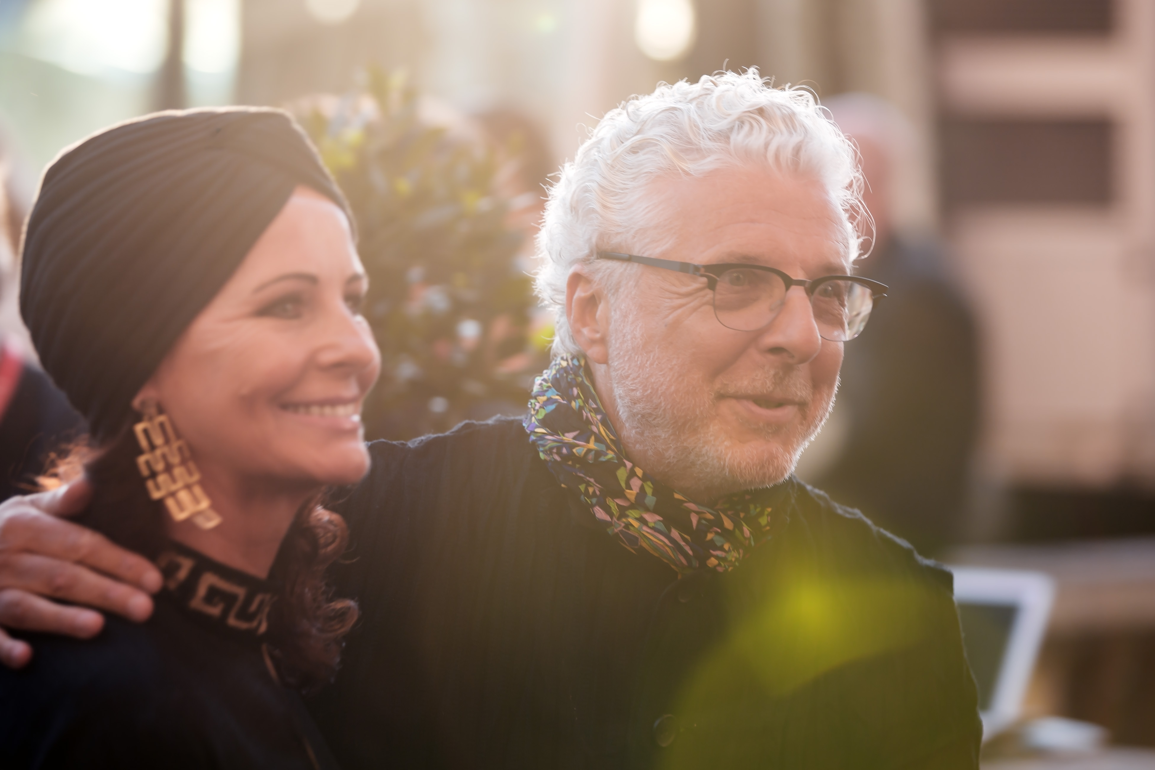 André Heller and Albina Schmid on the red carpet of the Romy TV awards at Hofburg Palace in Vienna, Austria.